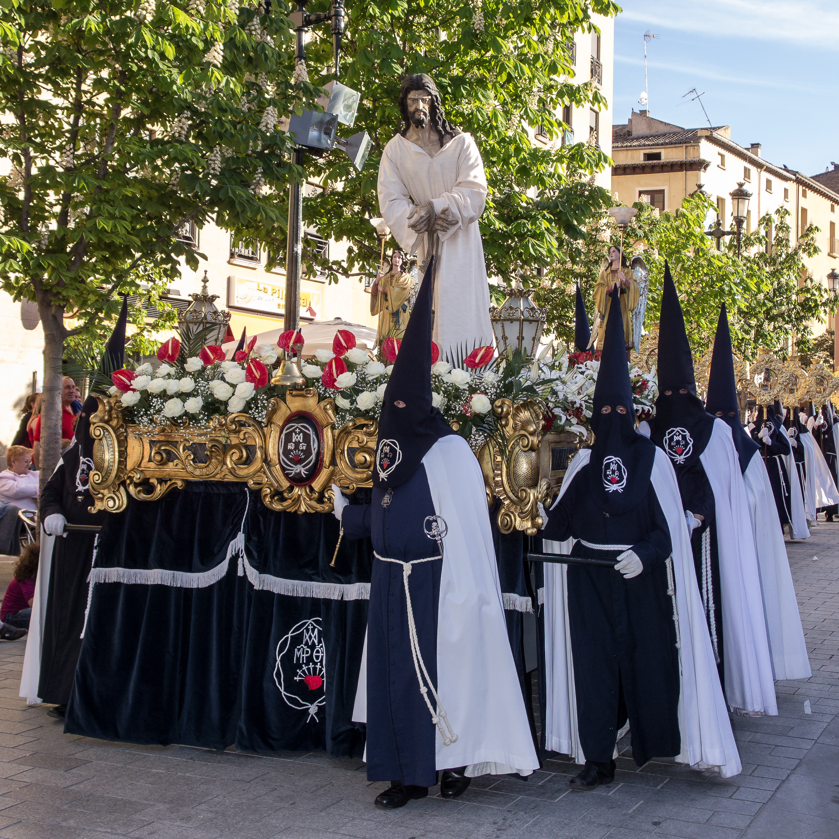 OLYMPUS DIGITAL CAMERA This is a photography of a Folklore festival in Spain (Wikidata id Q9075892).